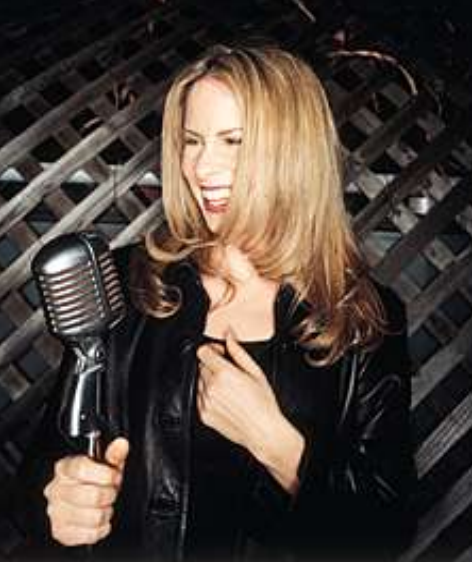 Vonda Shepard - Promotional photo.